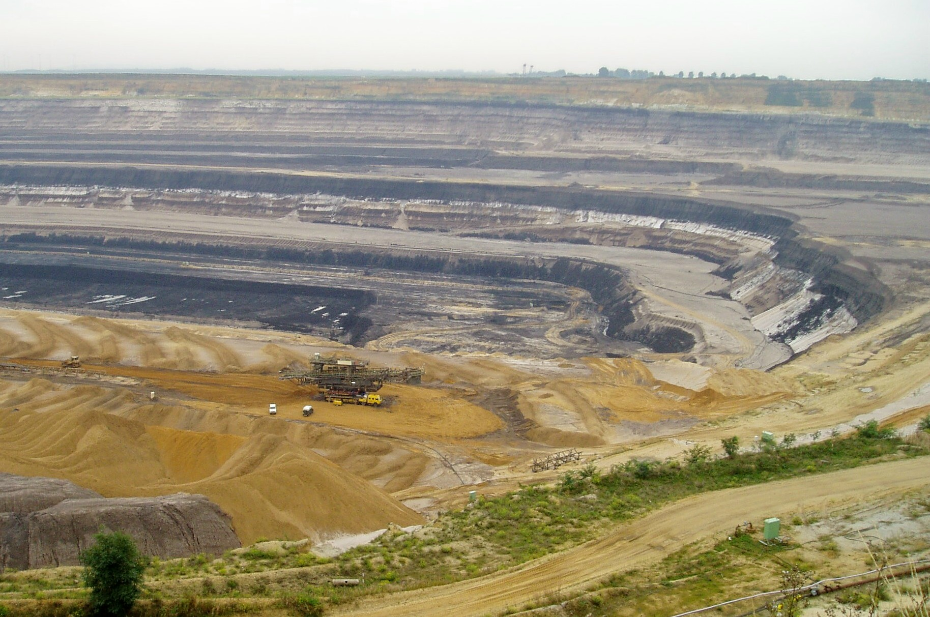 Strip mine for lignite at Garzweiler near Cologne